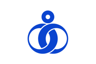 Flag of Iinan Shimane